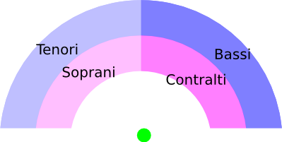 Choir sections in italian.